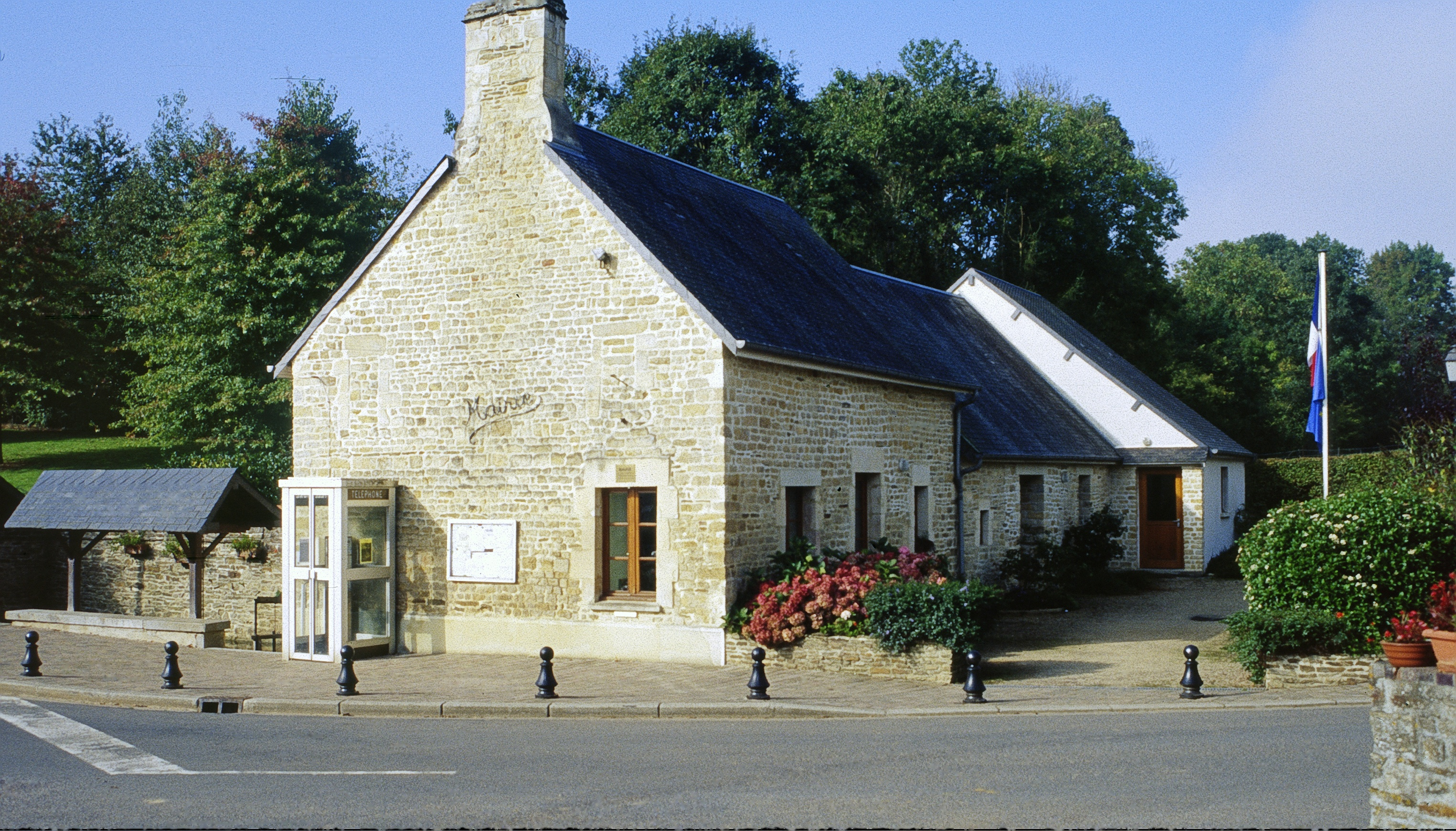 Town hall of Le Locheur (14)